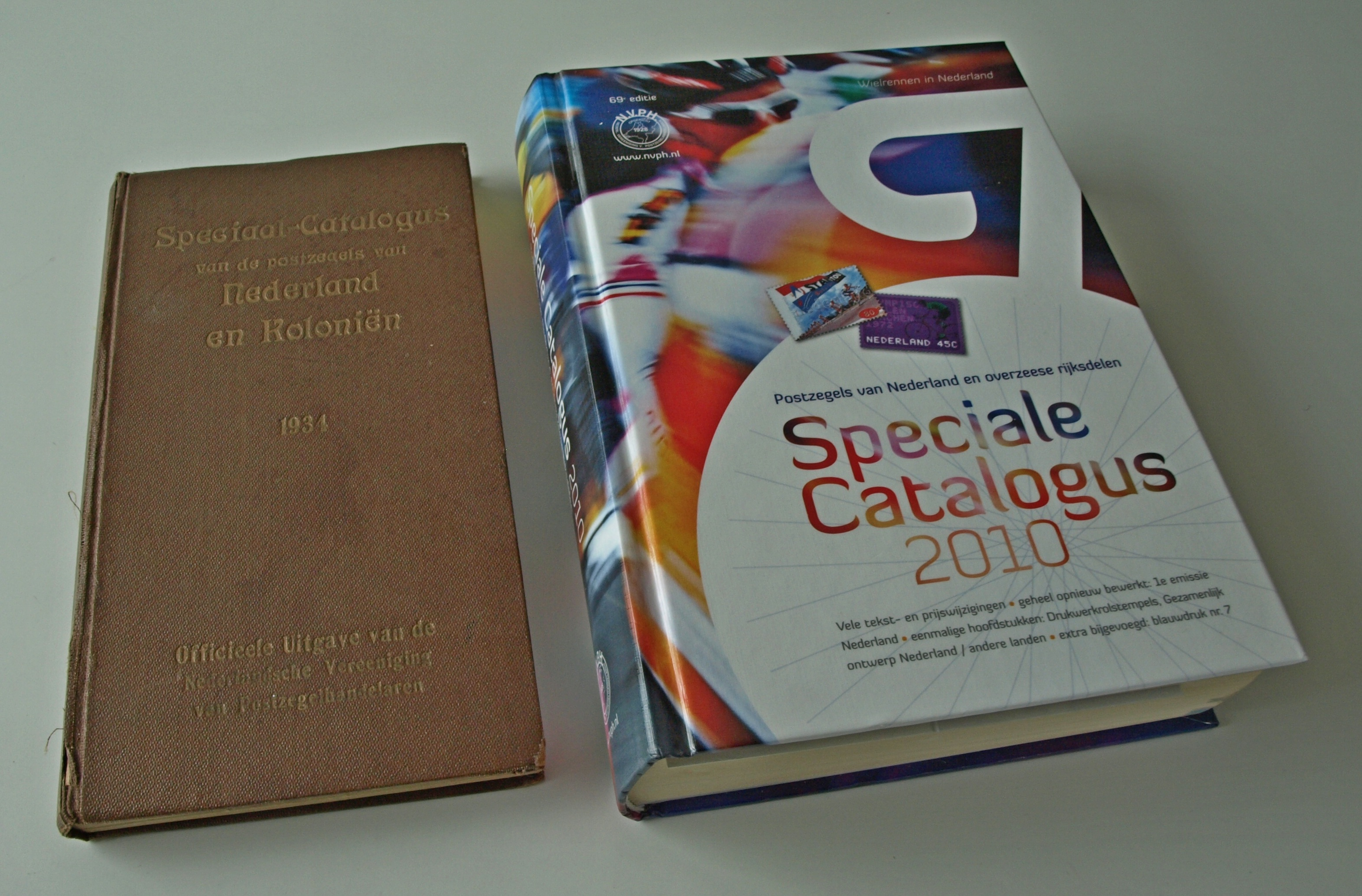 Dutch stamp catalogues 1934 and 2010